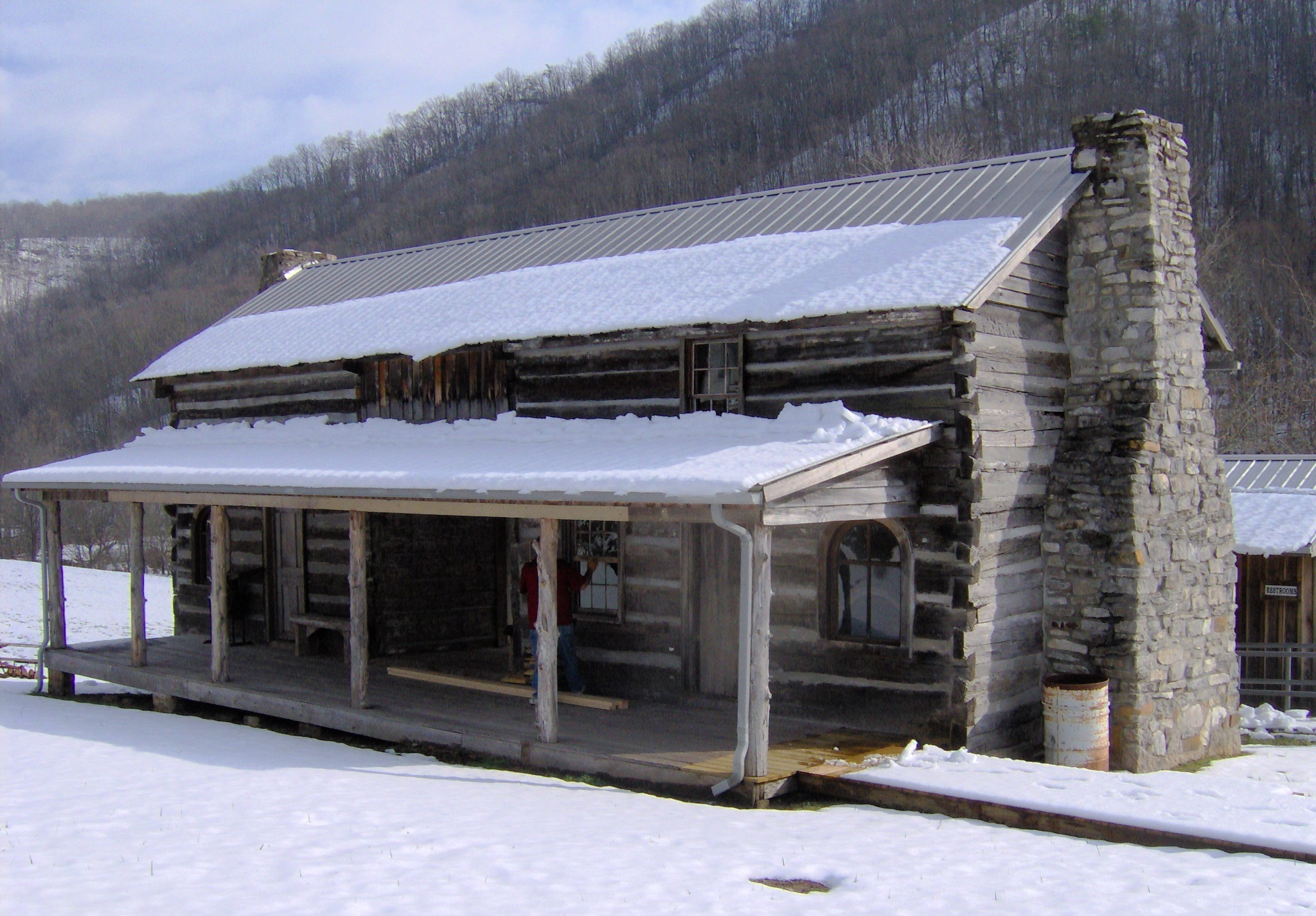 The Mahala Mullins Cabin, across the street from the Vardy Community School district in the Vardy Blackwater community of Hancock County, Tennessee, USA. The cabin was originally located atop Newmans Ridge (visible behind the cabin), and was relocated to its present location and restored in 2000. Mahala Mullins (1824–1898) was a legendary Melungeon moonshiner. Special thanks to John Stansberry for helping me find this, and to local resident David Collins for showing us around.